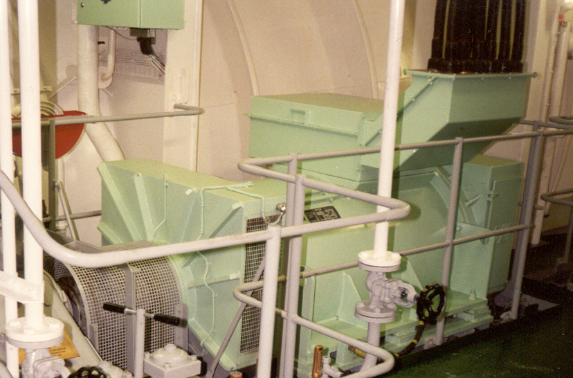 Shaft-driven generator in ship engine room